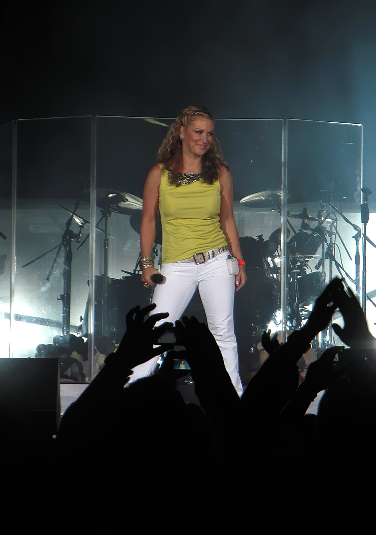 Anastacia performing during the Heavy Rotation Tour.